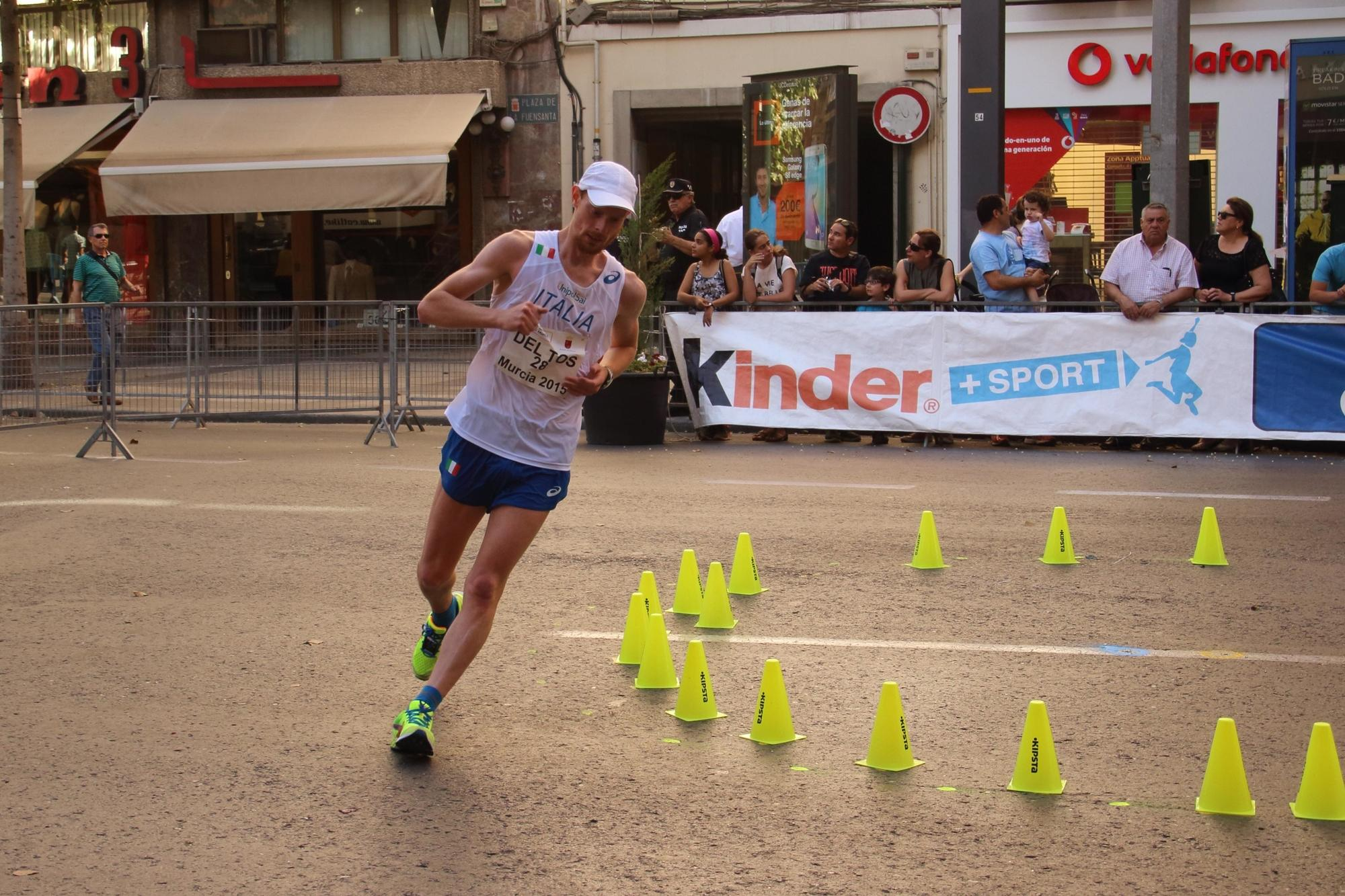 28-Leonardo Dei Tos (ITA) in the 11th European Cup Race Walking Murcia ESP 17 May 2015